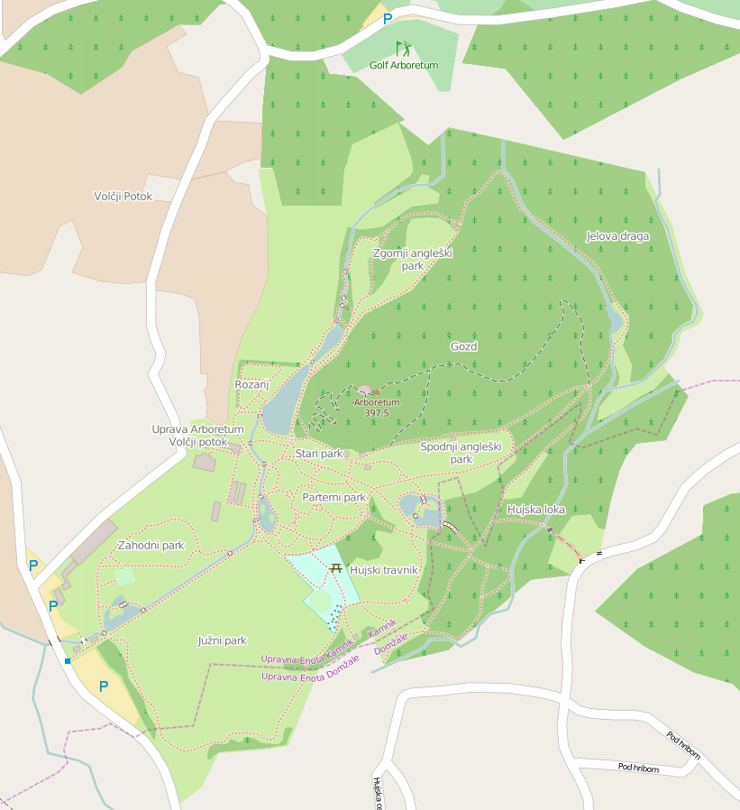 Volčji Potok Arboretum from osm